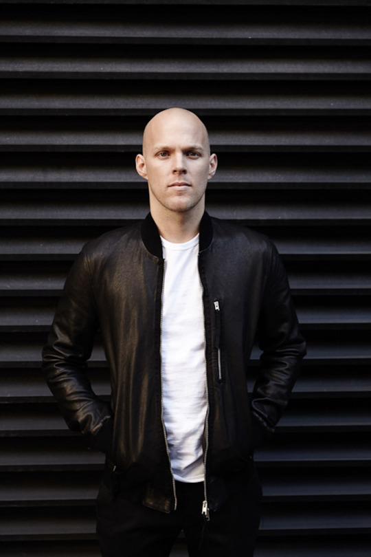 Sam Martin